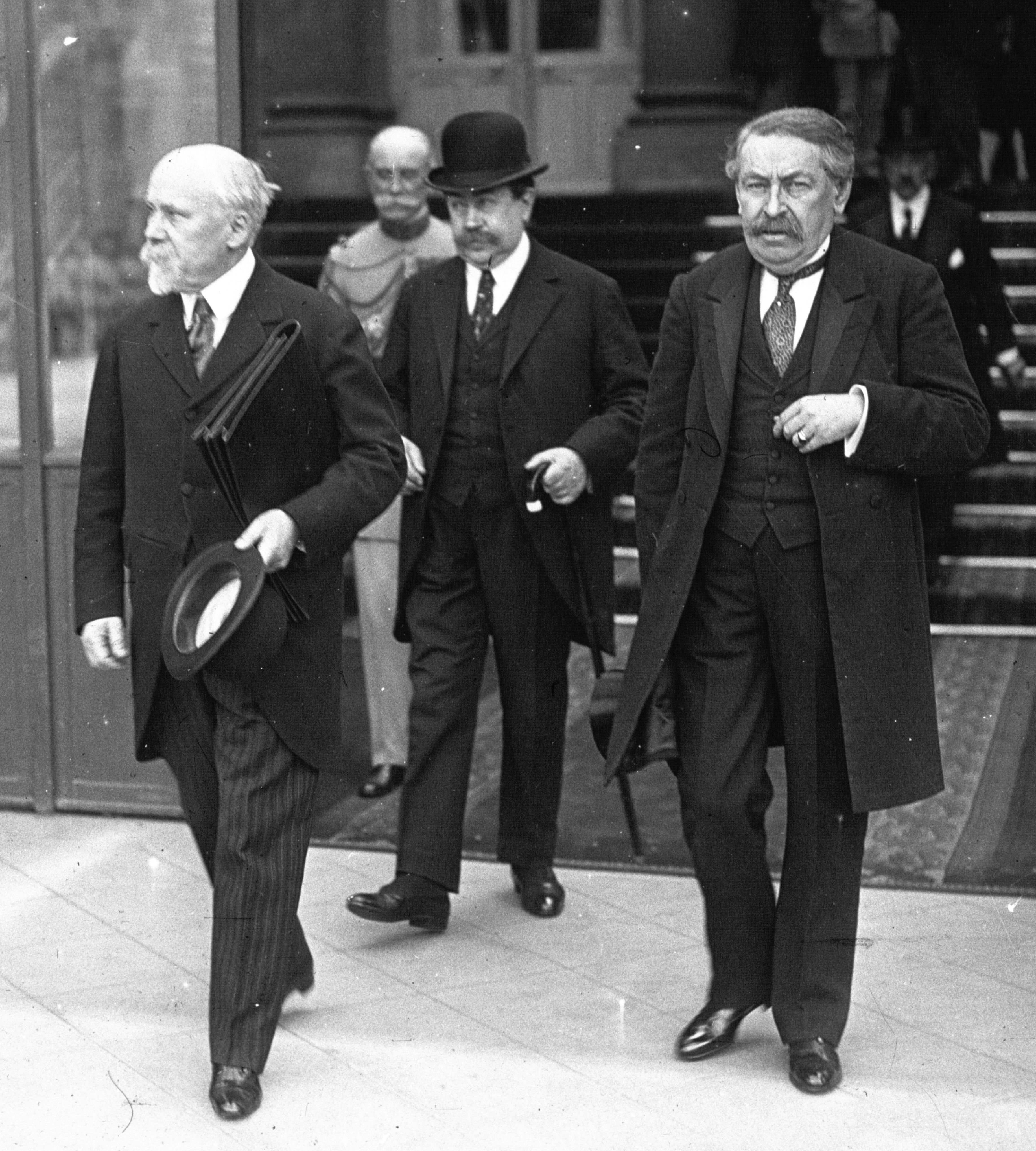 Council of Ministers at the Élysée Palace in 1925. From left to right: Raymond Poincaré, Paul Painlevé, Aristide Briand.